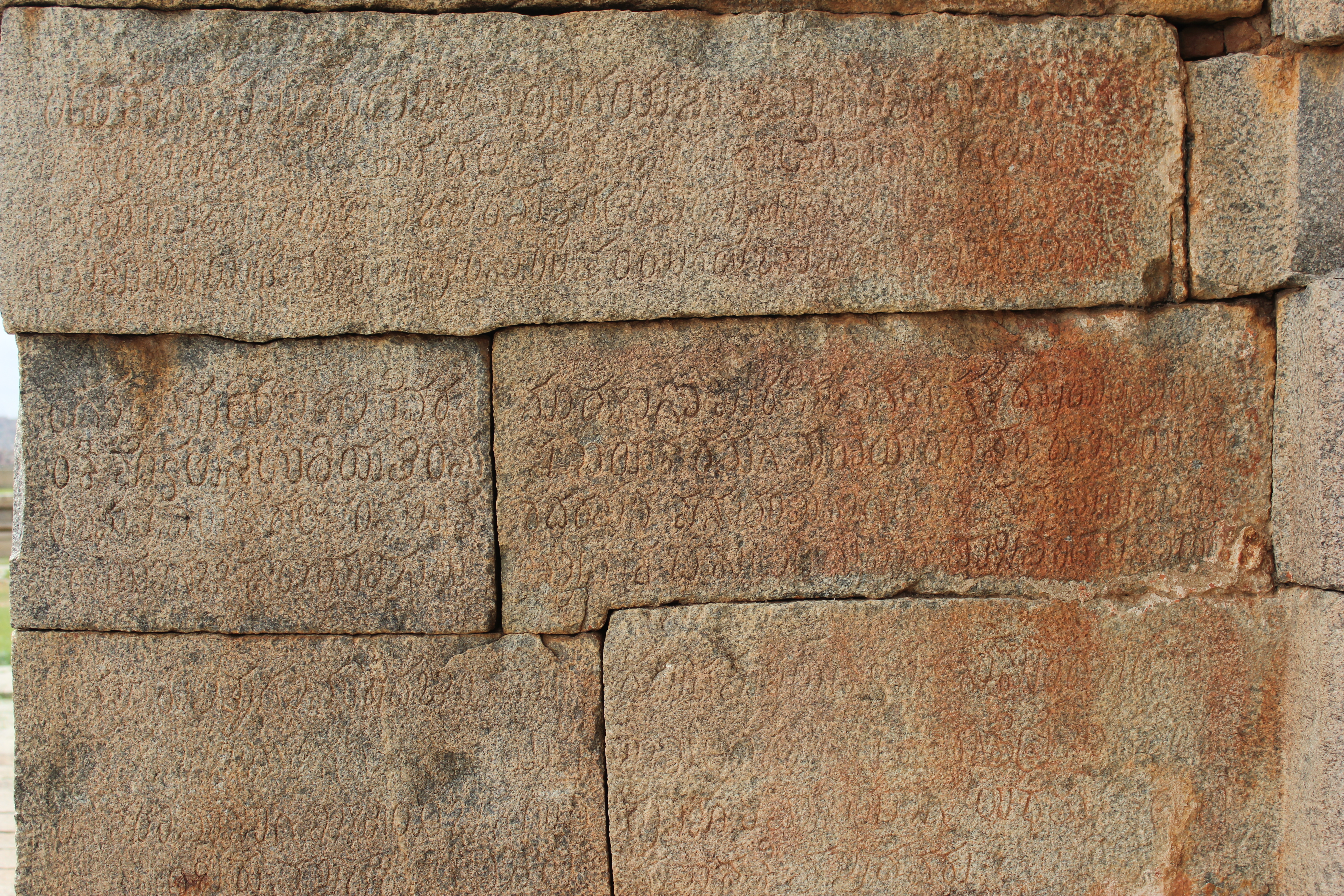 This photograph of a Kannada inscription (1536 AD) of Vijayanagara King Achyuta Raya was taken by me at the Vitthala temple complex in Hampi, a UNESCO world heritage site in the Bellary district, Karnataka state, India.